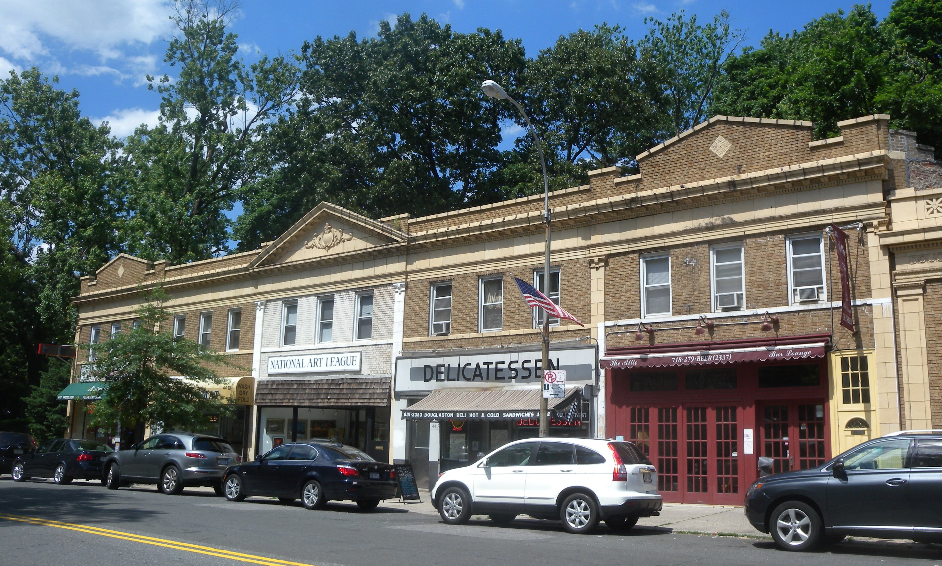 Looking north across Douglaston Parkway at NAL on a sunny afternoon.